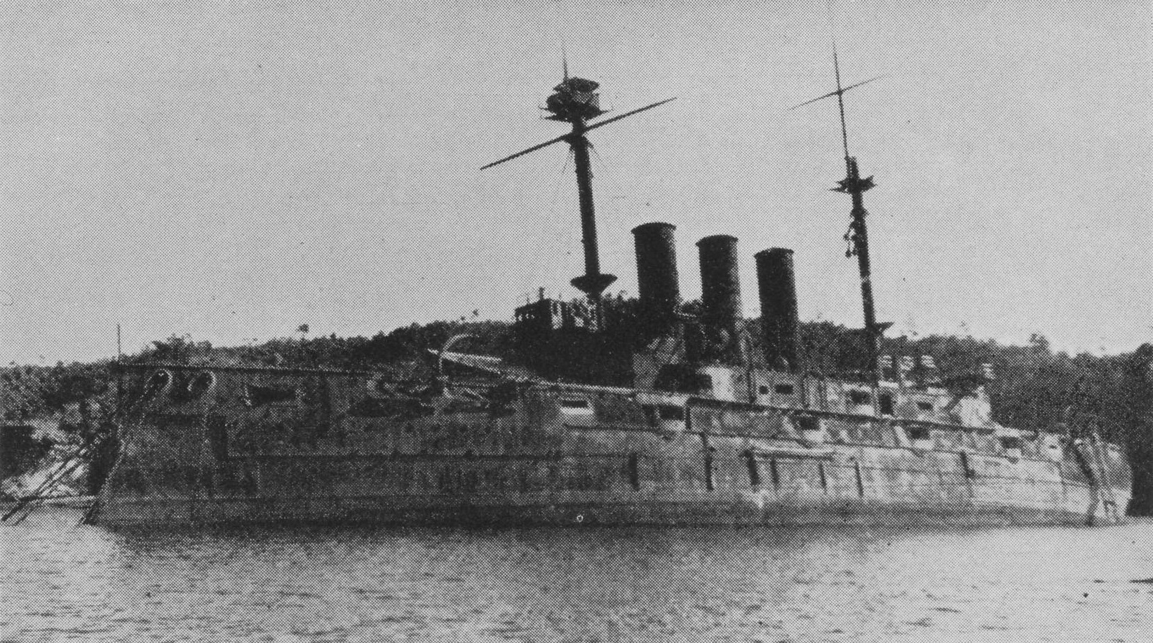 Japanese battleship "Shikishima" after the end of the war.